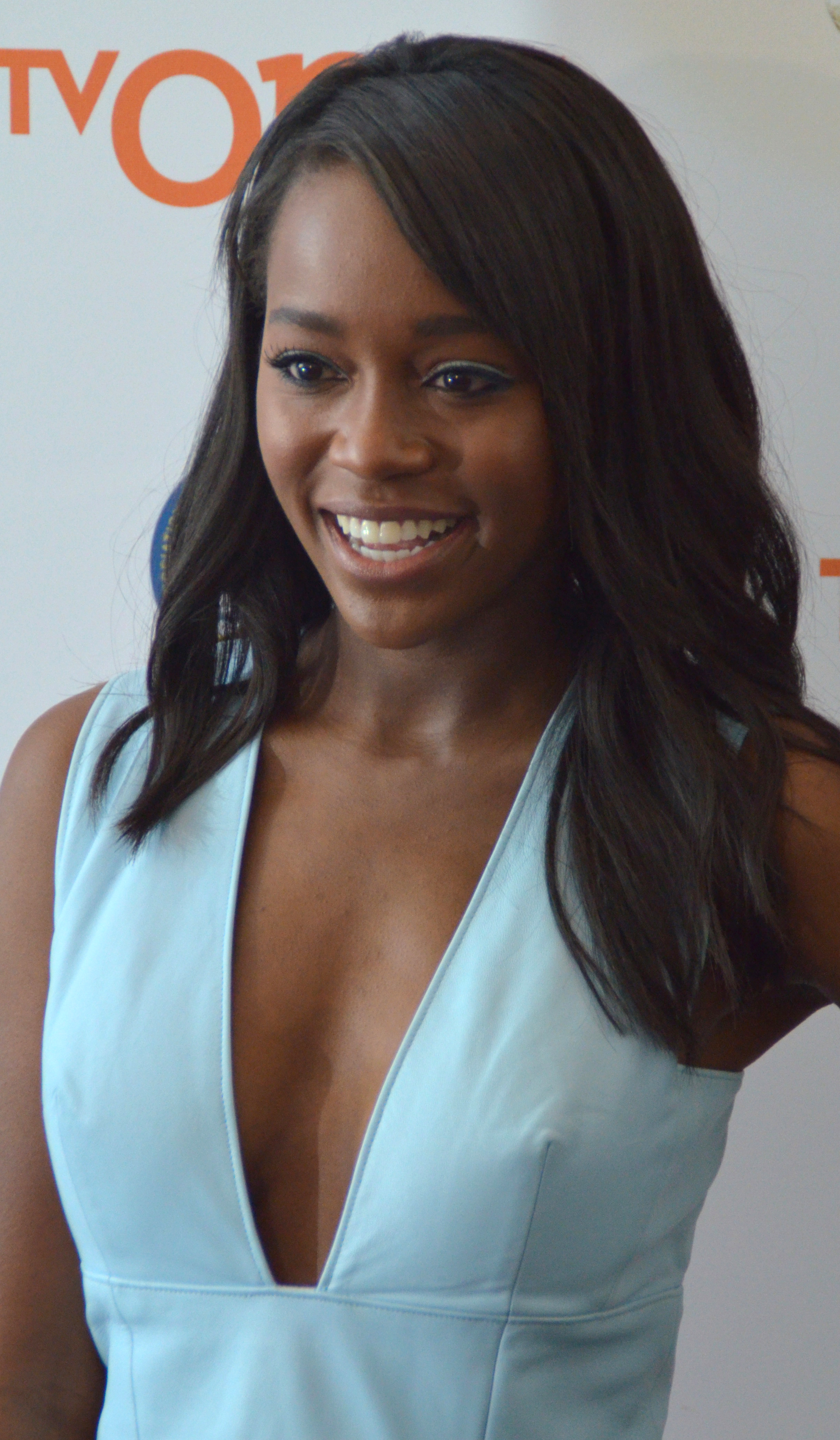 Aja Naomi King at the 46th NAACP Image Awards Nominee Press Conference at the Paley Center for Media in Beverly Hills, CA.